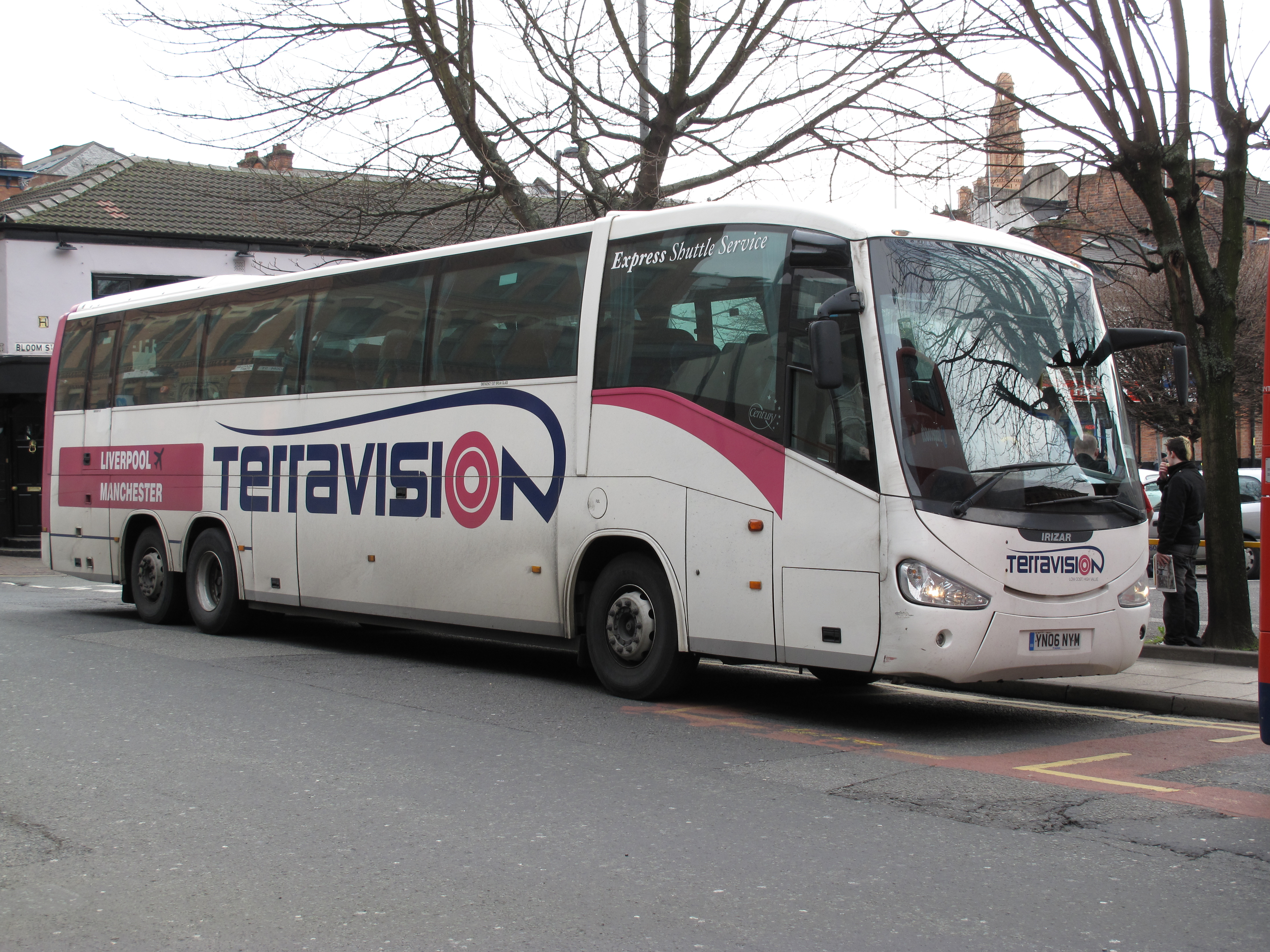 Terravision coach in Manchester city centre.